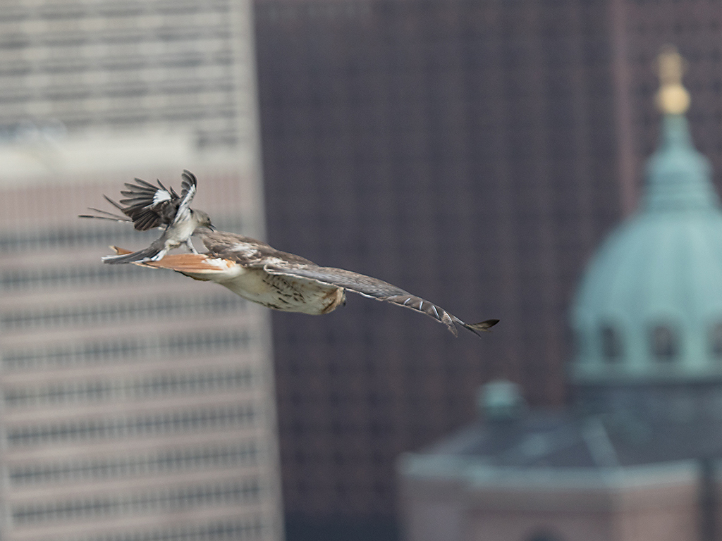 A Northern Mockingbird Mimus polyglottos harasses a Red-tailed Hawk Buteo jamaicensis over Logan Square in Philadelphia. This image was shot 22 stories above ground. The Red-tailed Hawk is an adult that has a nest near the Art Museum. Cathedral Basilica is visible in the background.